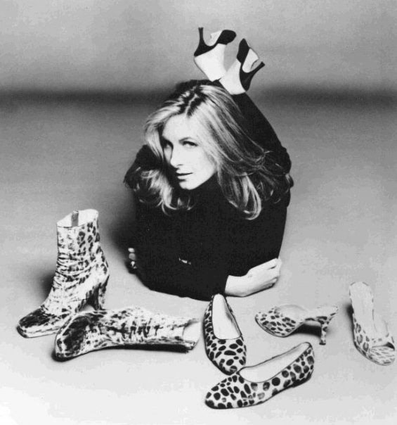 Portrait of Vanessa Noel